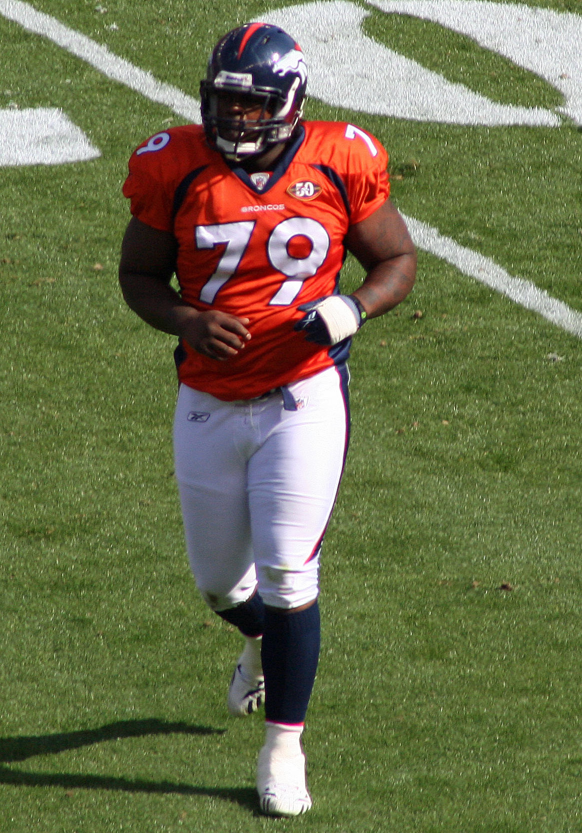 Marcus Thomas, a defensive tackle on the Denver Broncos American football team.